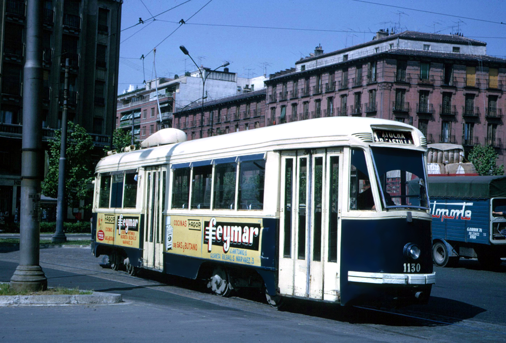 A PCC tram build by MMC (Material Móvil y Construcciones) in Madrid in 1969, near Atocha Station. Self-made photo, 1969